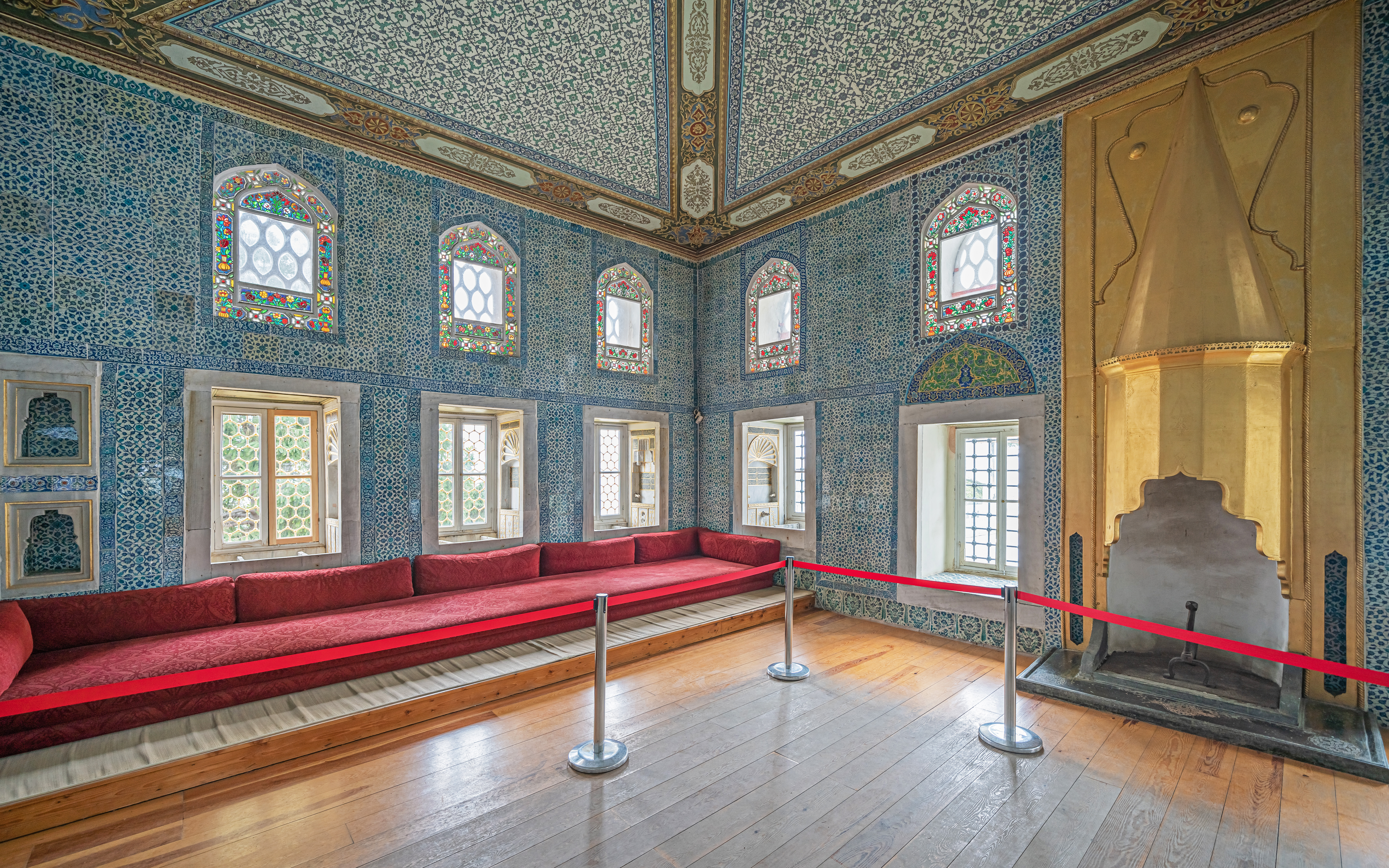 Circumcision Pavilion of Topkapı Palace in Istanbul, Turkey